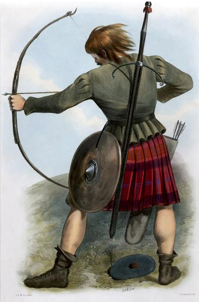 "Macquarrie". A plate illustrated by R. R. McIan, from James Logan's The Clans of the Scottish Highlands, published in 1845.